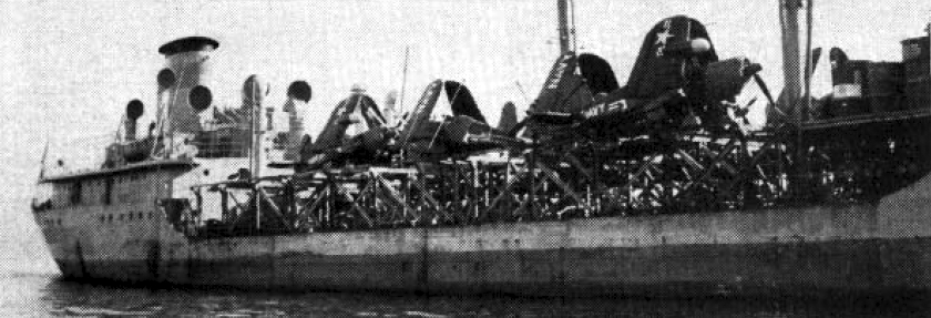 The U.S. Military Sealift Command fleet oiler USNS Cedar Creek (T-AO-138), circa in 1950. She was fitted with an extra platform to transport aircraft, in this case U.S. Navy Vought F4U-5N Corsair fighters, to the Korean theater of war. This platform was called "Machano Decking" and created 1,100 square metres of deck.